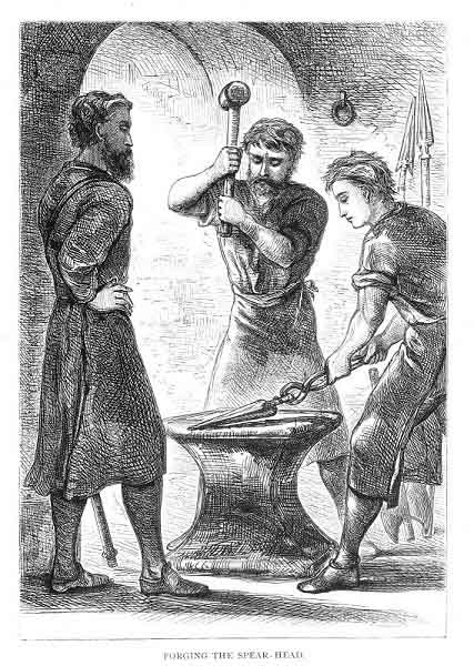 Forging the Spear Head, from Gísla saga (1866 English translation by George W. DaSent)